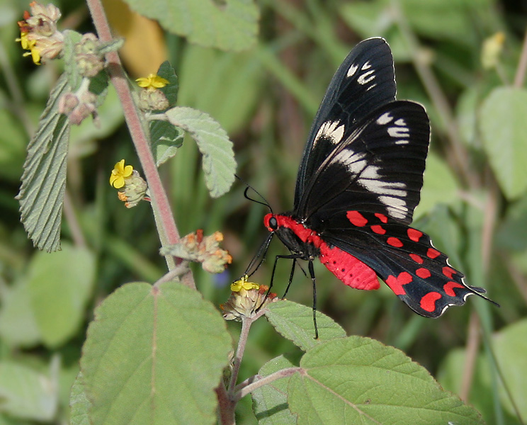 Crimson Rose Atrophaneura hector in Hyderabad , India.